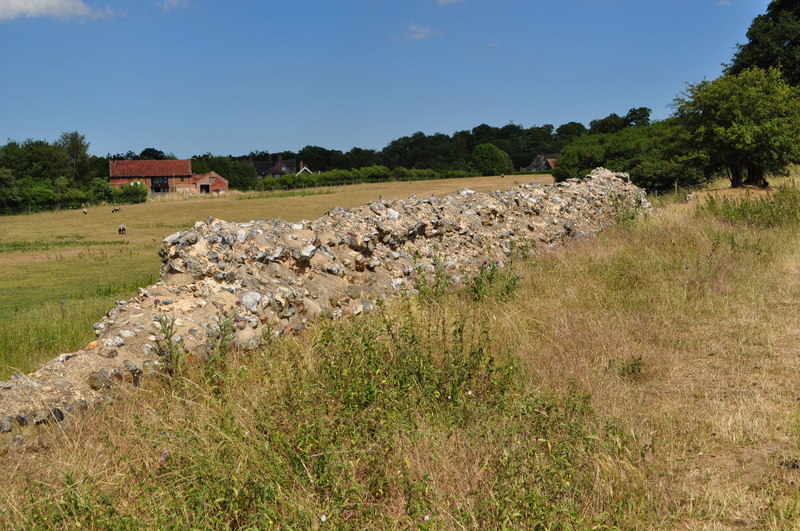 Venta Icenorum, near to Caistor st Edmund, Norfolk, Great Britain. The remaining wall on the northern side of the famous Roman town, market place of the Iceni.